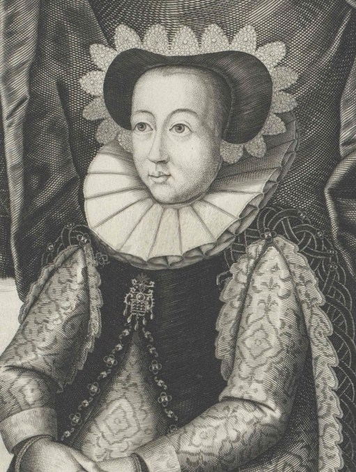 Agnes of Solms-Laubach